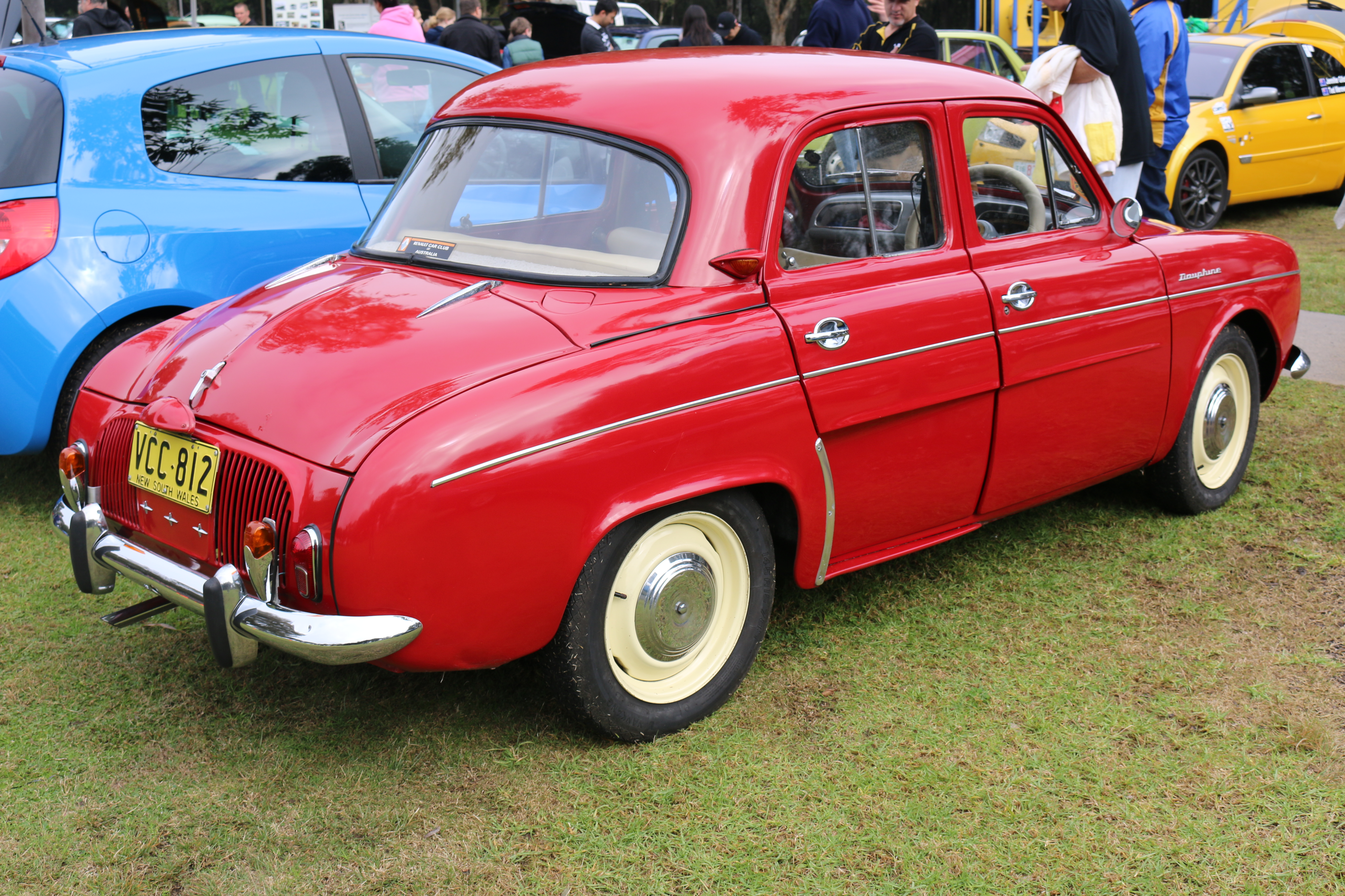 All French Day, Silverwater Park, NSW July 2016